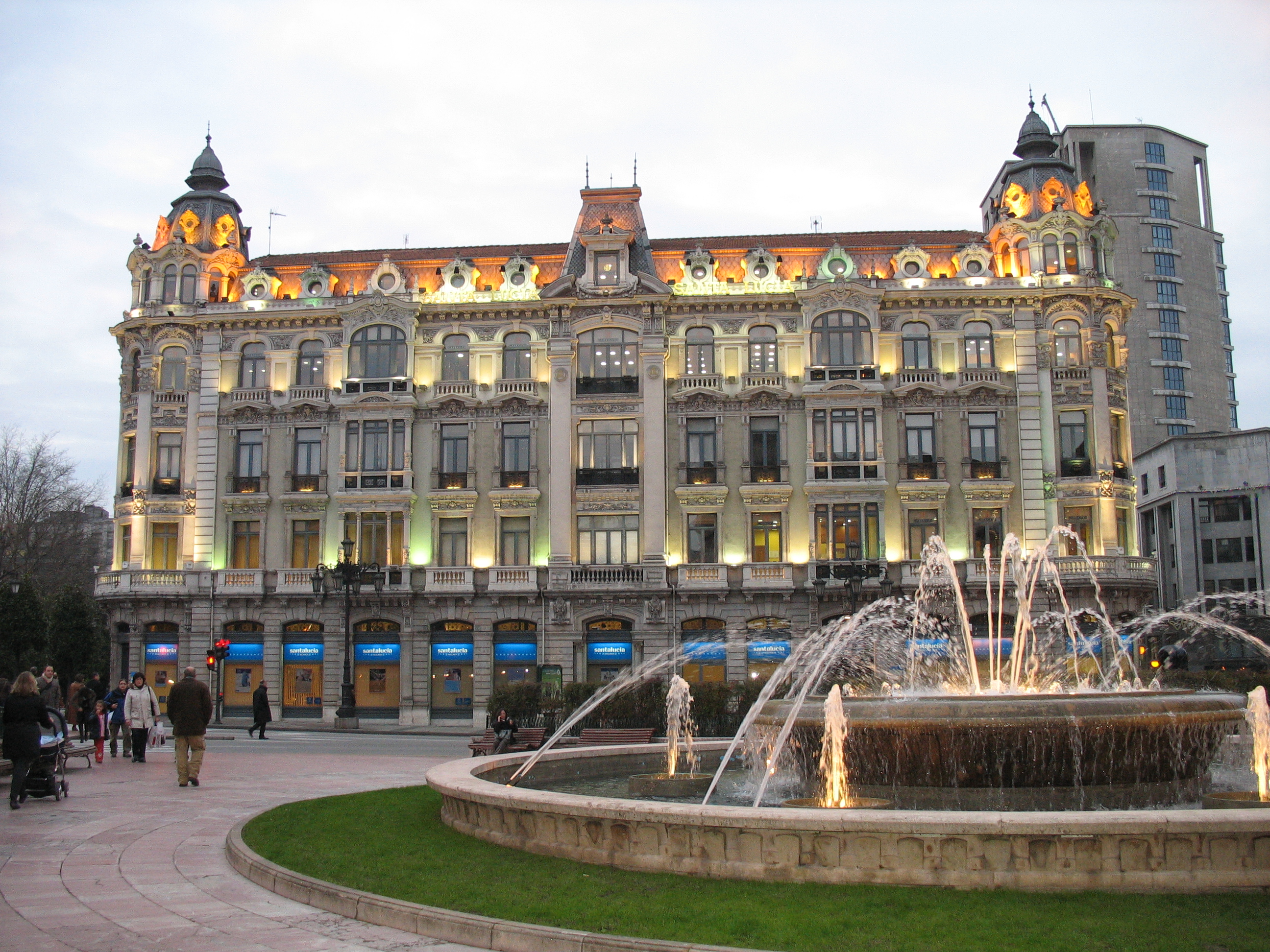 Building known as "Casa Conde", located in Plaza de la Escandalera, Oviedo, Spain